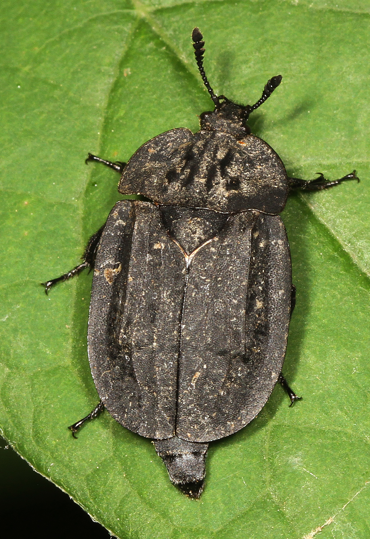 Ridged Carrion Beetle - Oiceoptoma inaequale, Leesylvania State Park, Woodbridge, Virginia.